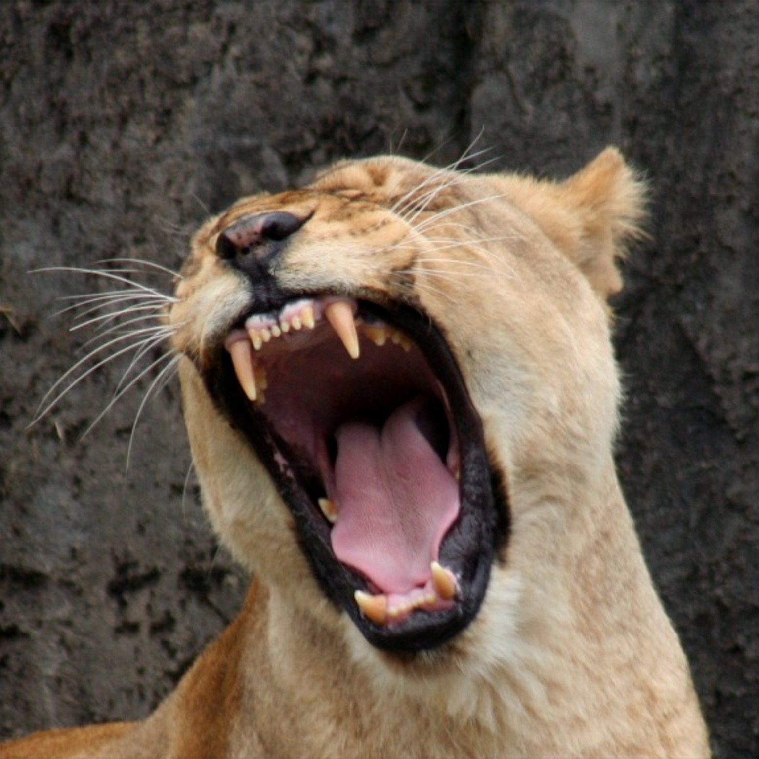 Female Lion